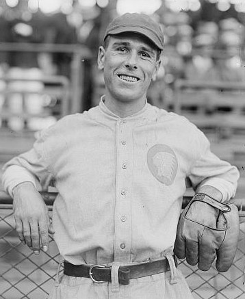 Fred Snodgrass, baseball player CALL NUMBER: LC-B2- 3941-7[P&P] REPRODUCTION NUMBER: LC-DIG-ggbain-22463